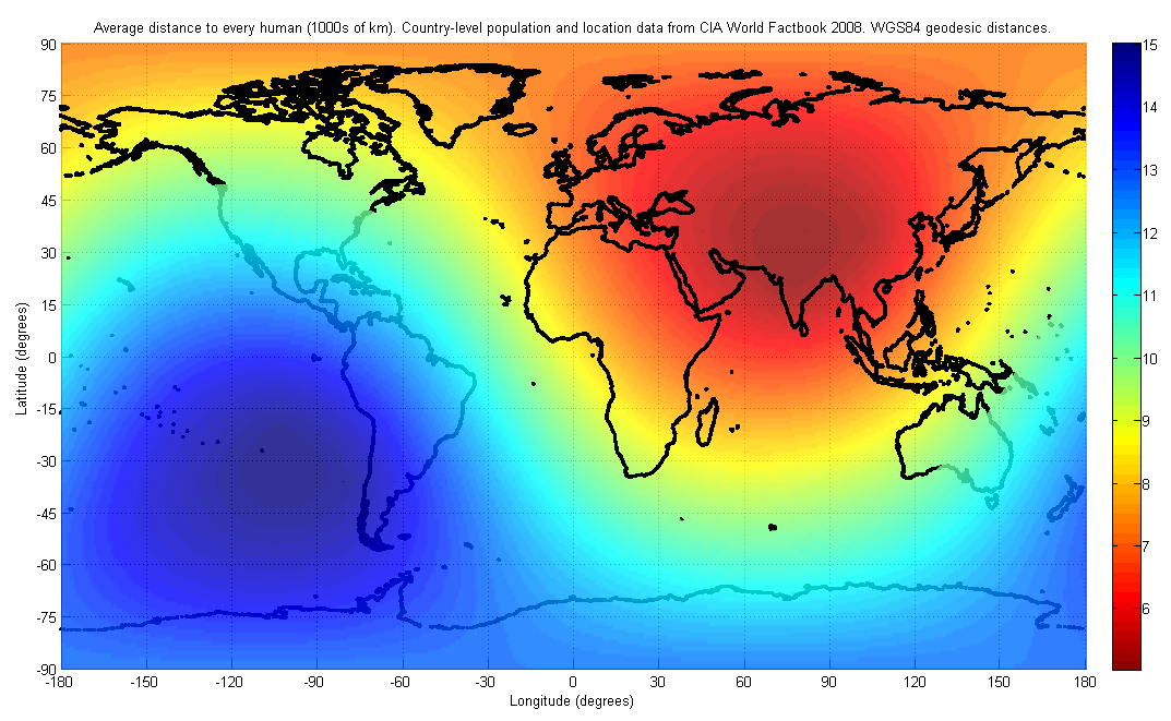 The figure indicates the average distance to every human on earth, depending on location. The population and location data used are at the country-level, from the 2008 CIA World Factbook. The distance was computed first by finding the geodesic (shortest path) distance along the surface of the WGS84 reference ellipsoid to each country on the list, and then finding the weighted average of all such distances with the weight being the corresponding country's population. I have used only publicly available data for this image. The image may look slightly different in future, as world population distributions change. The image will also look different if a different distance metric is used, such as a Euclidean distance in three dimensions, which would allow for tunneling through the earth.